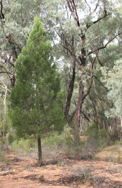 Callitris endlicheri (Black Cypress)